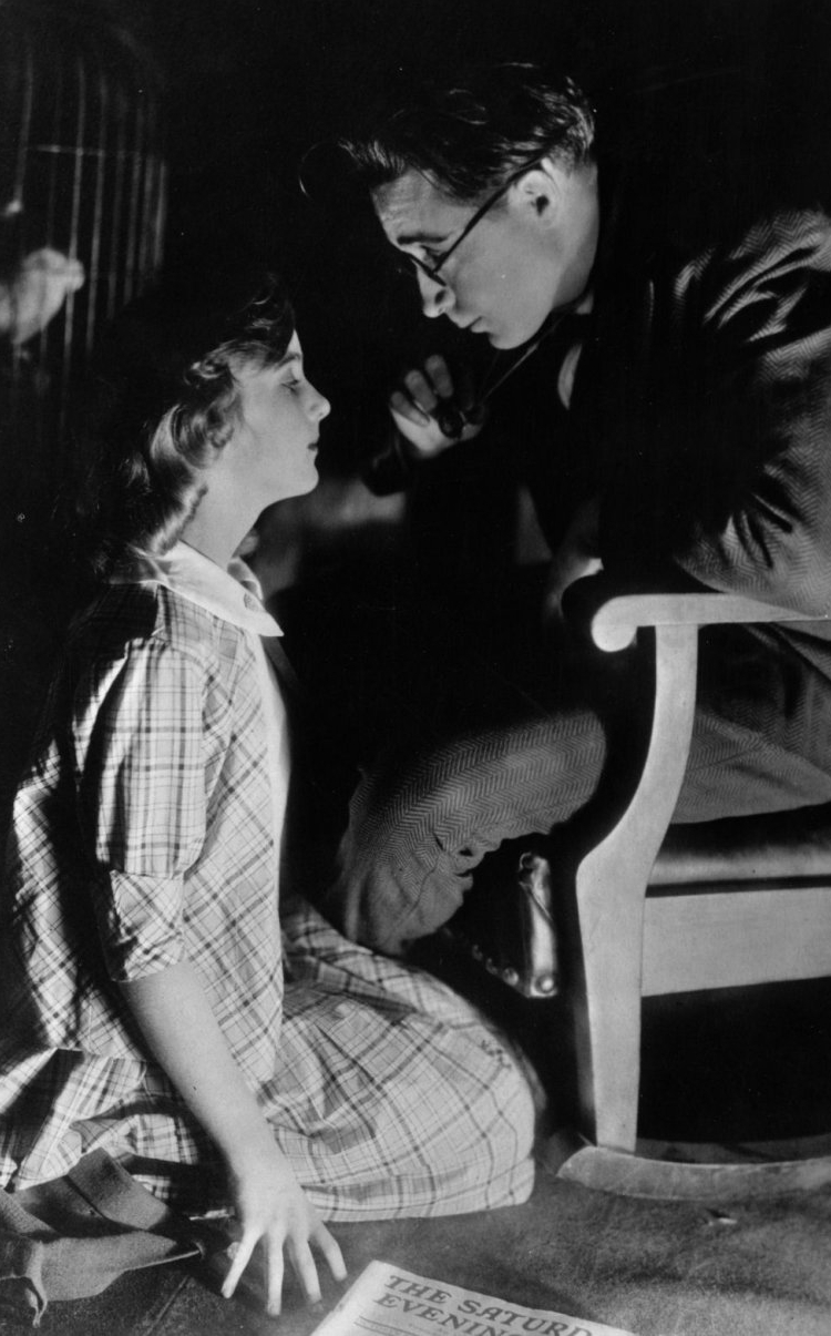 Cropped publicity still for the film A Perfect Crime (1921), featuring Monte Blue and a young Carole Lombard.